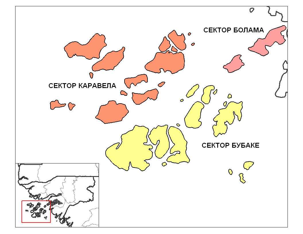 Map of the sectors of Bolama region of Guinea-Bissau. Inscriptions in Bulgarian.